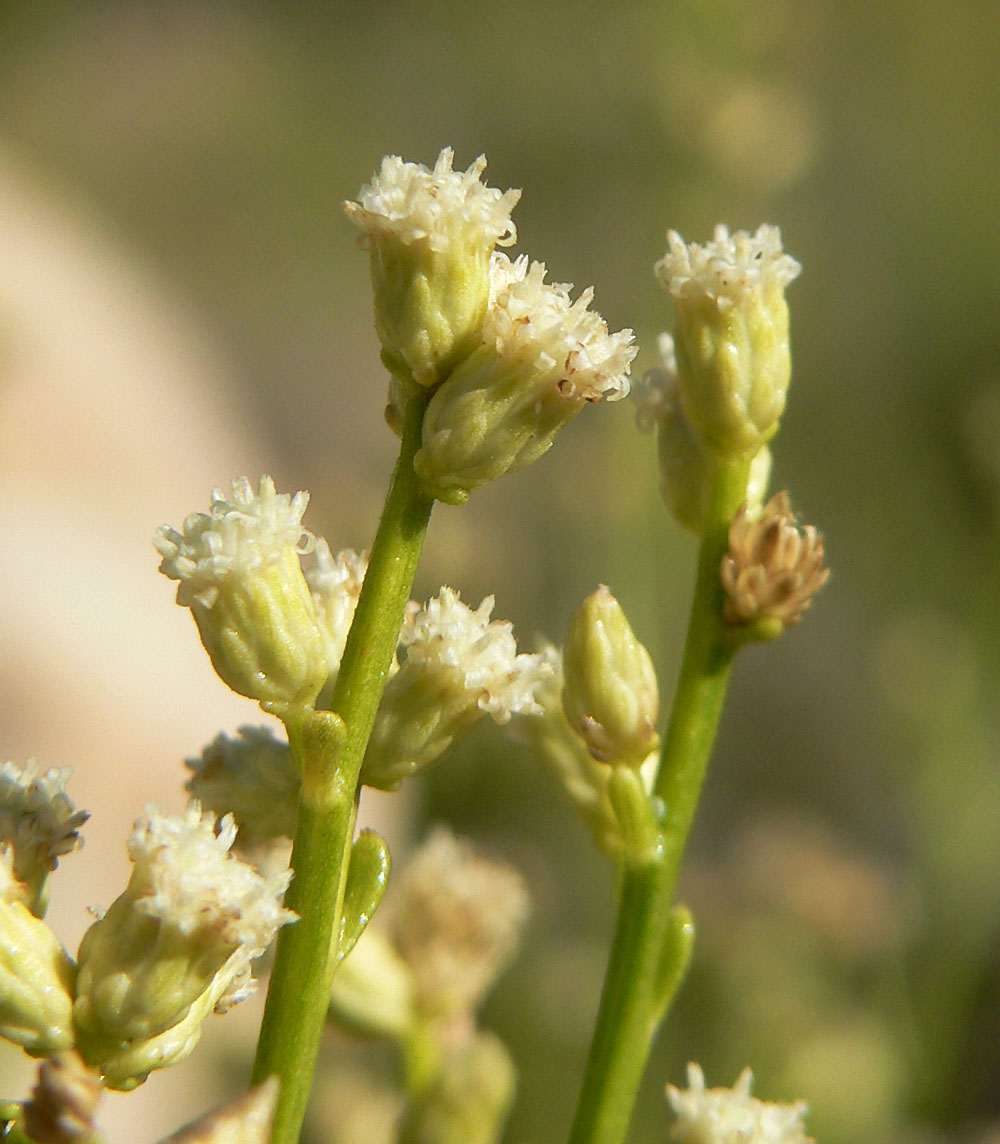 Baccharis sergiloides in Pine Creek Canyon near the old homestead, Red Rock Canyon, Spring Mountains, southern Nevada (elev. about 1200 m)